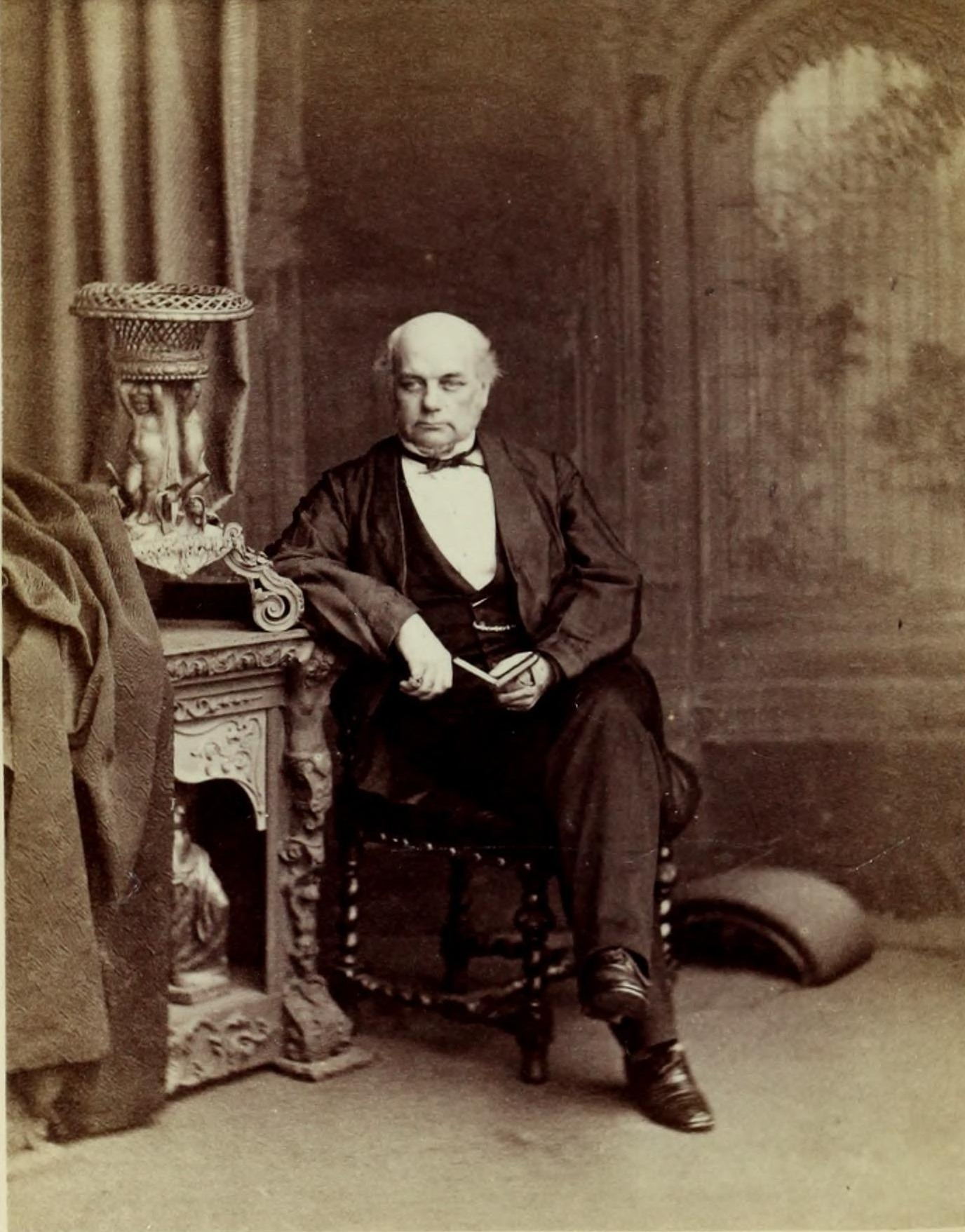 Albumen print of Forbes Benignus Winslow (1810-1874)